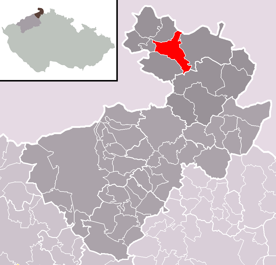 Location of Velký Šenov town within Děčín District and administrative area of Rumburk as a Municipality with Extended Competence.